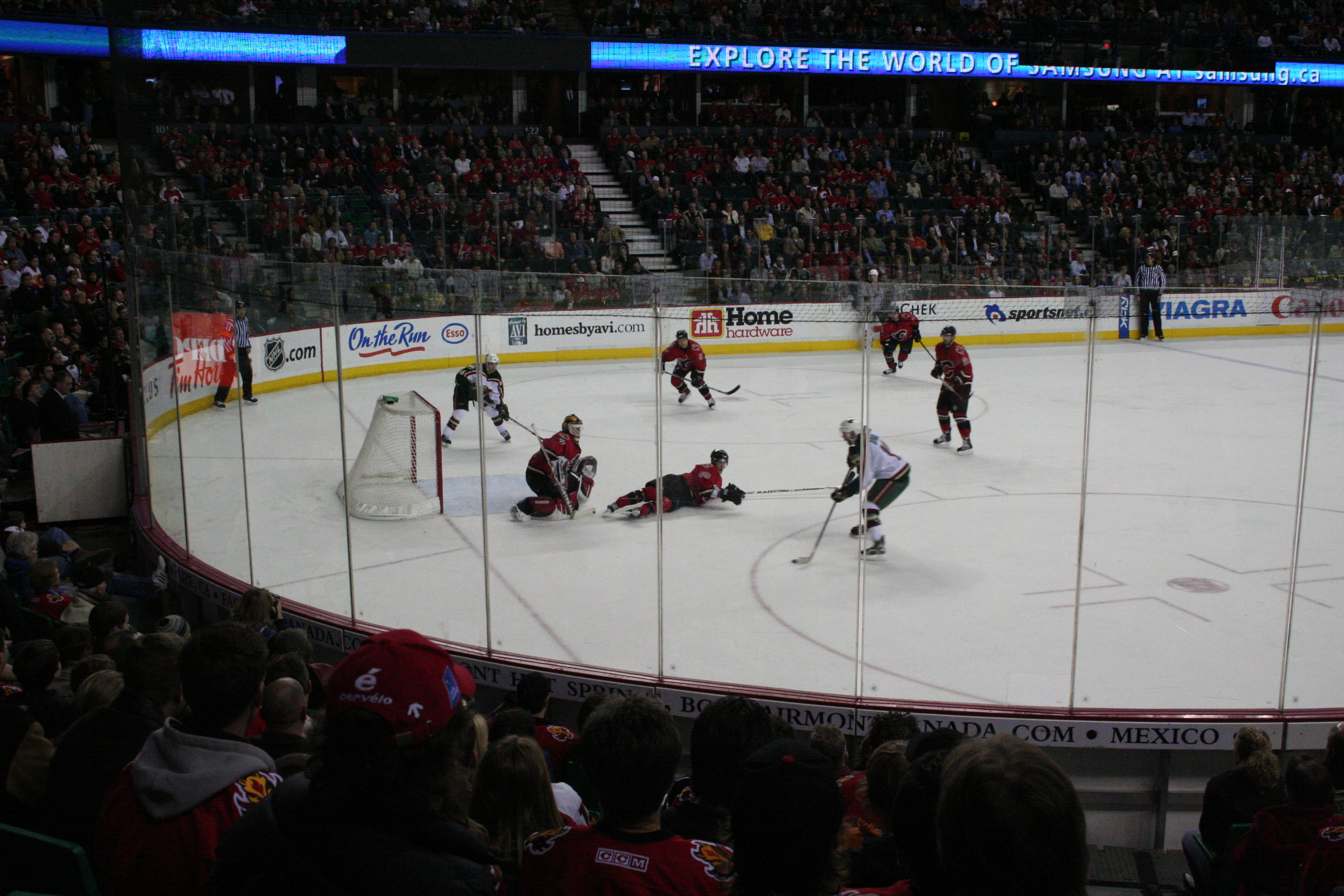 Calgary Flames playing against Minnesota Wild at the Pengrowth Saddledome in Calgary